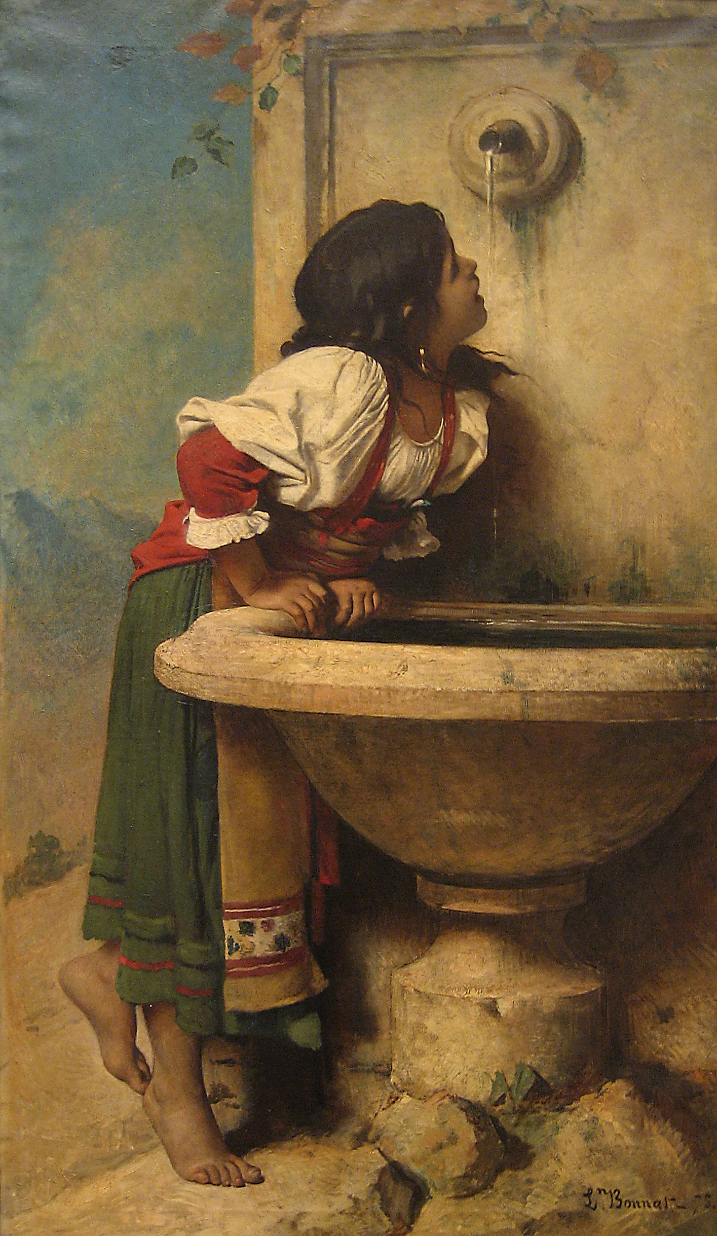 Roman Girl at a Fountain by French painter Léon Bonnat. Metropolitan Museum of Art.